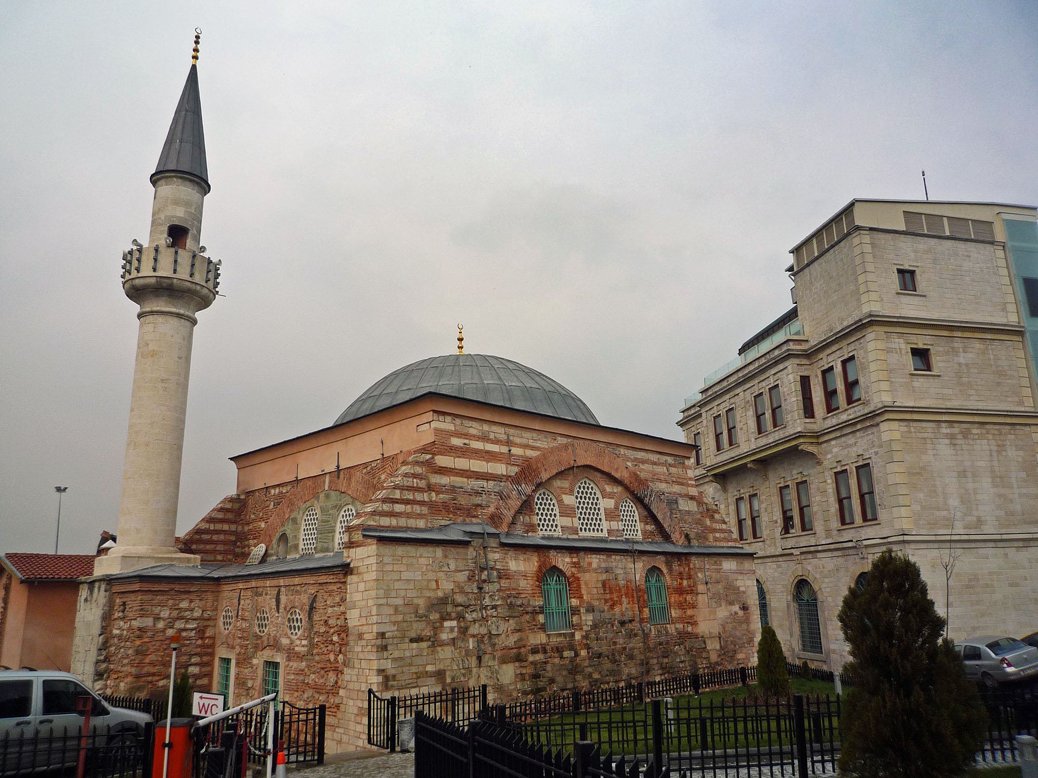 Ahi Celebi Mosque - Eminonu